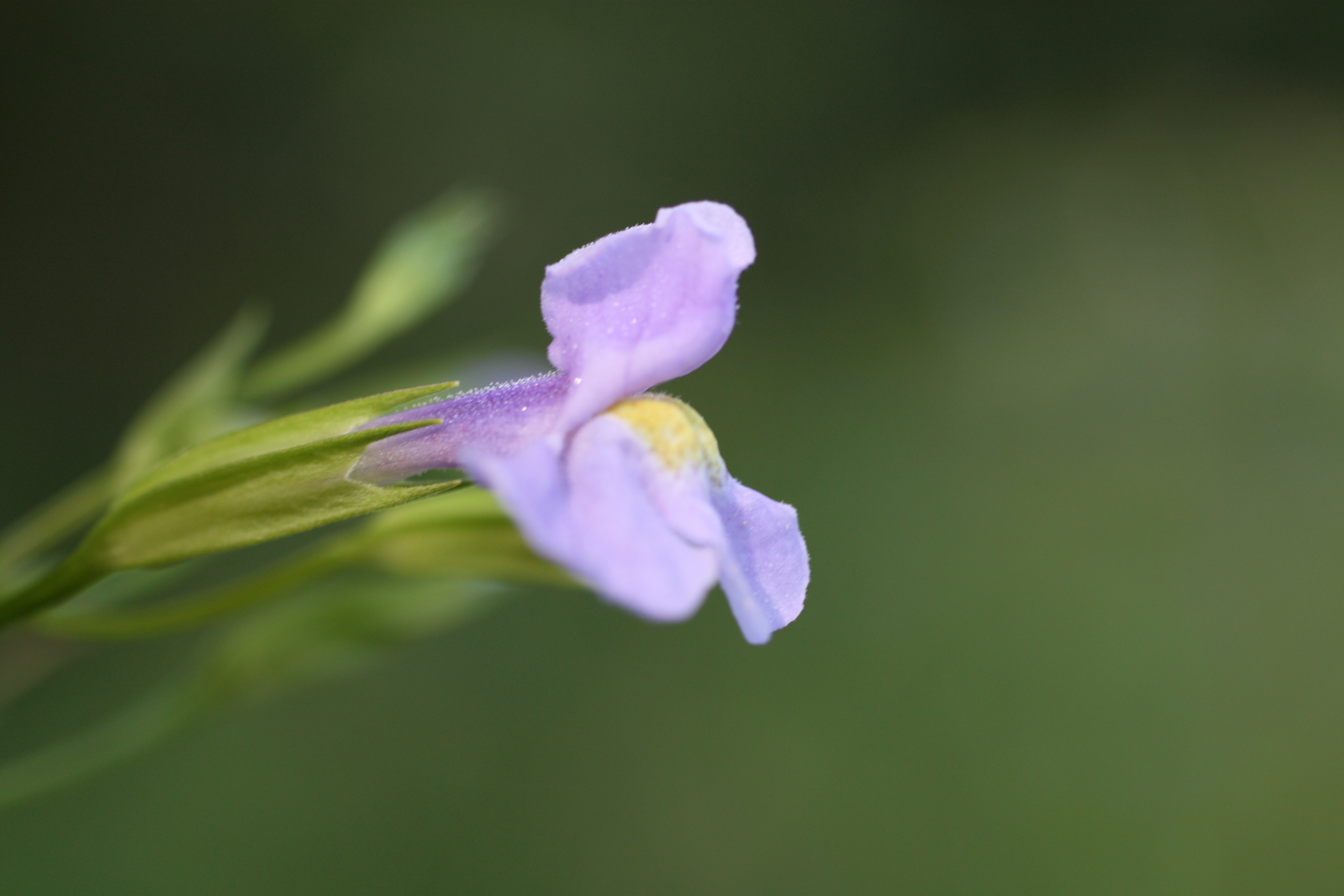 Mimulus ringens, monkey flower, laterial view of the flower